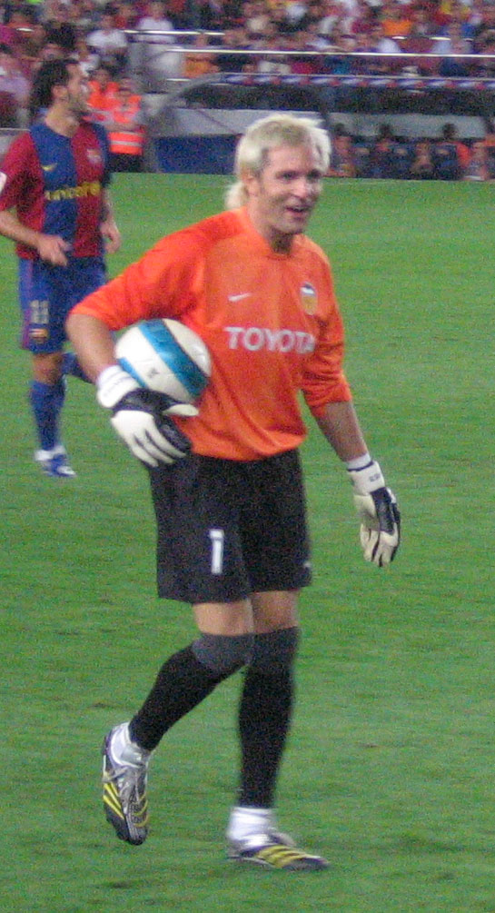 Valencia Club de Fútbol's goalkeeper Santiago Cañizares during the match FC Barcelona-Valencia CF.